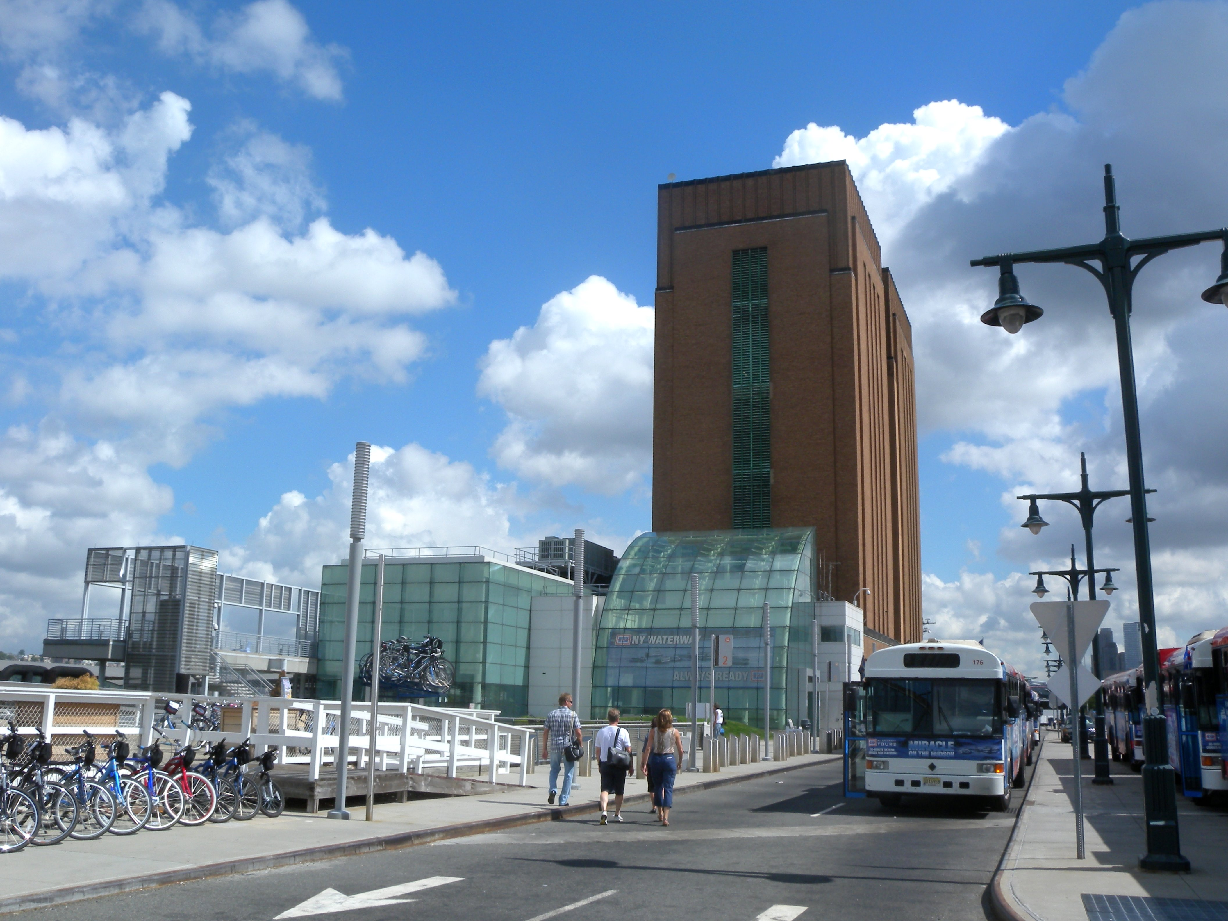 Looking north at West Midtown Ferry Terminal on a sunny day.